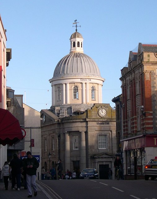 The Market House, Penzance. Viewed from the west, the dome is seen illuminated in the winter afternoon sunlight.